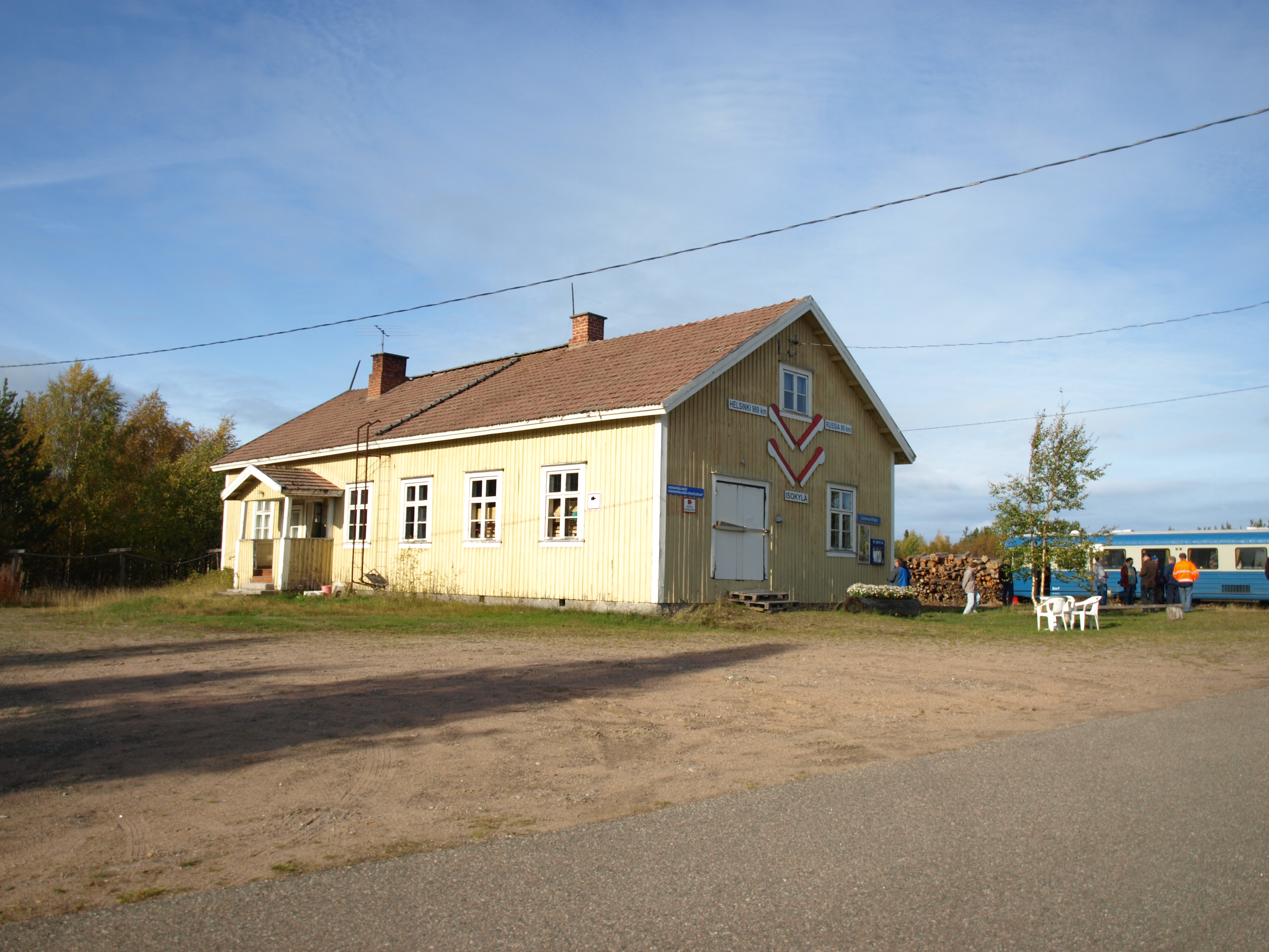 Isokylä railway station in Kemijärvi, Finland